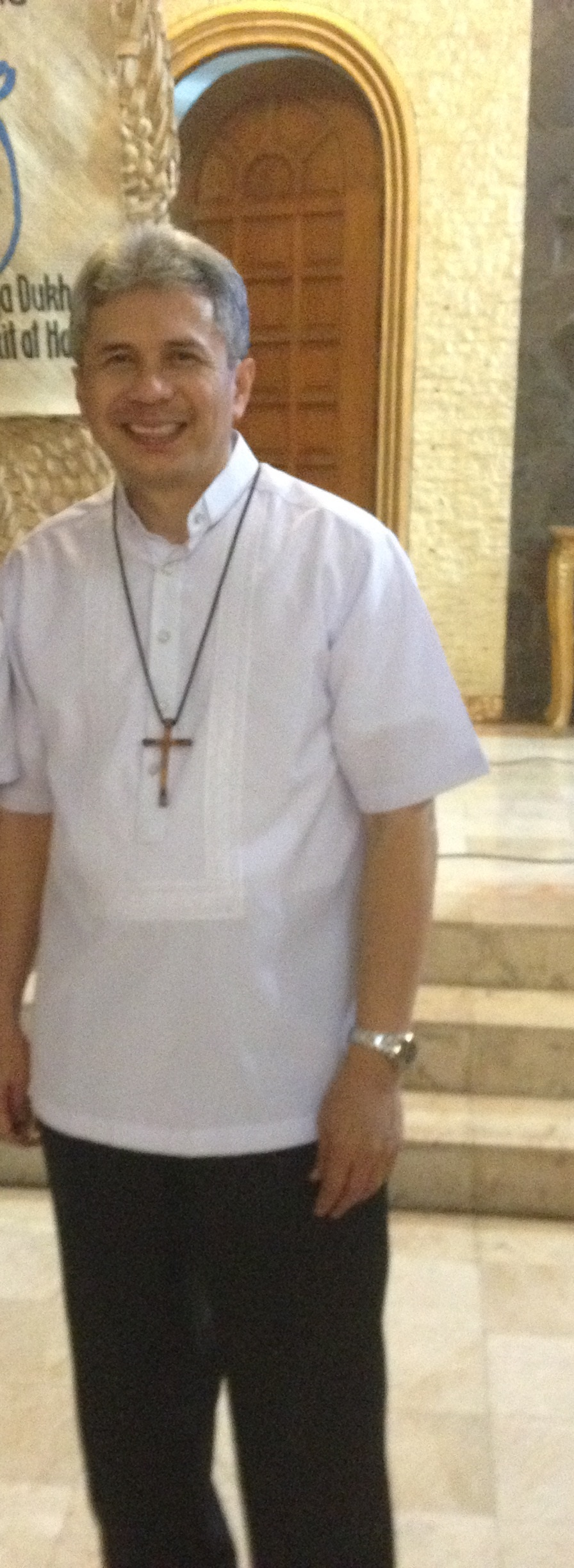 He is the current Bishop of the Roman Catholic Diocese of Imus,Cavite